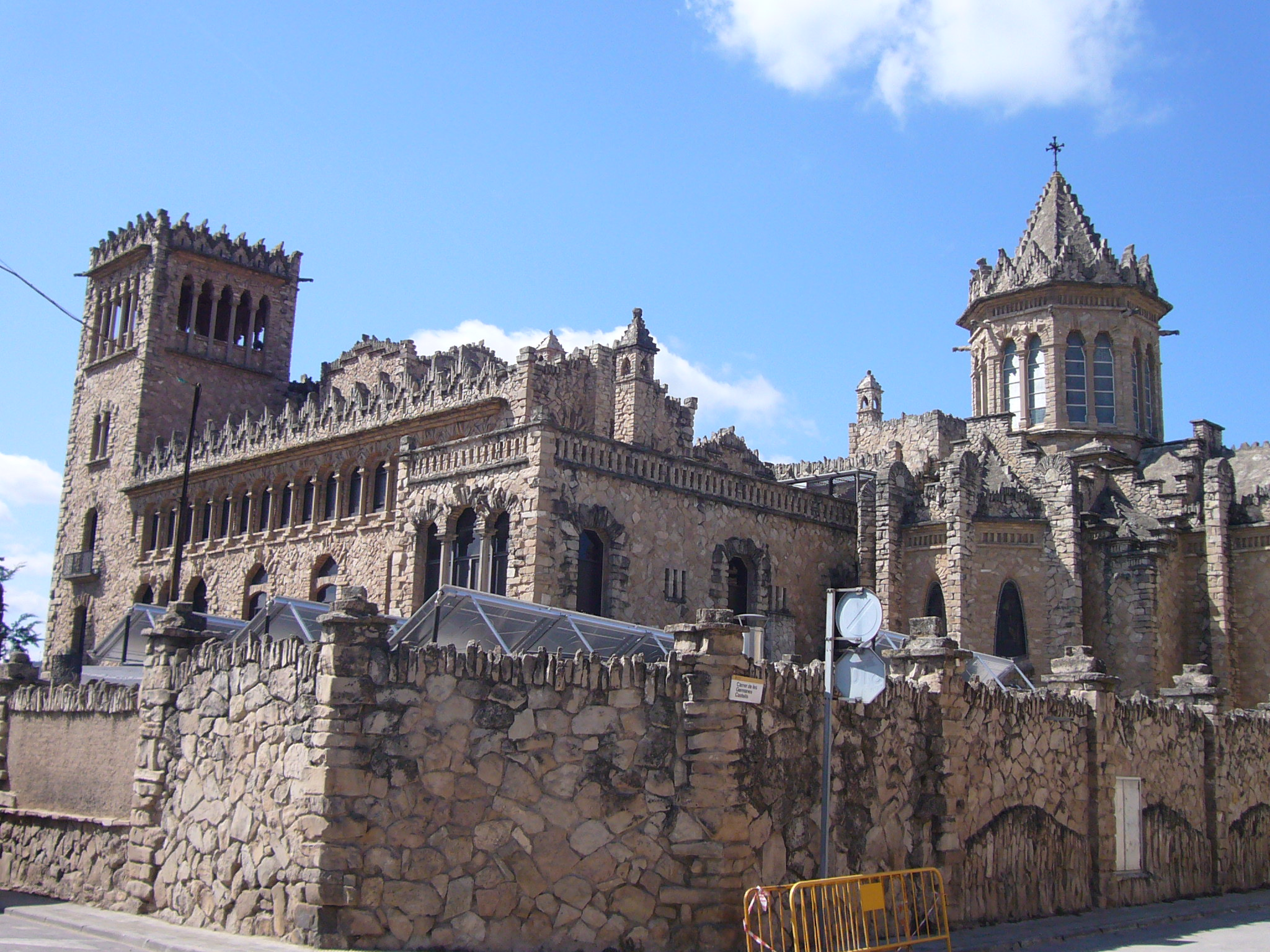 Asil del Sant Crist, Igualada, Catalonia